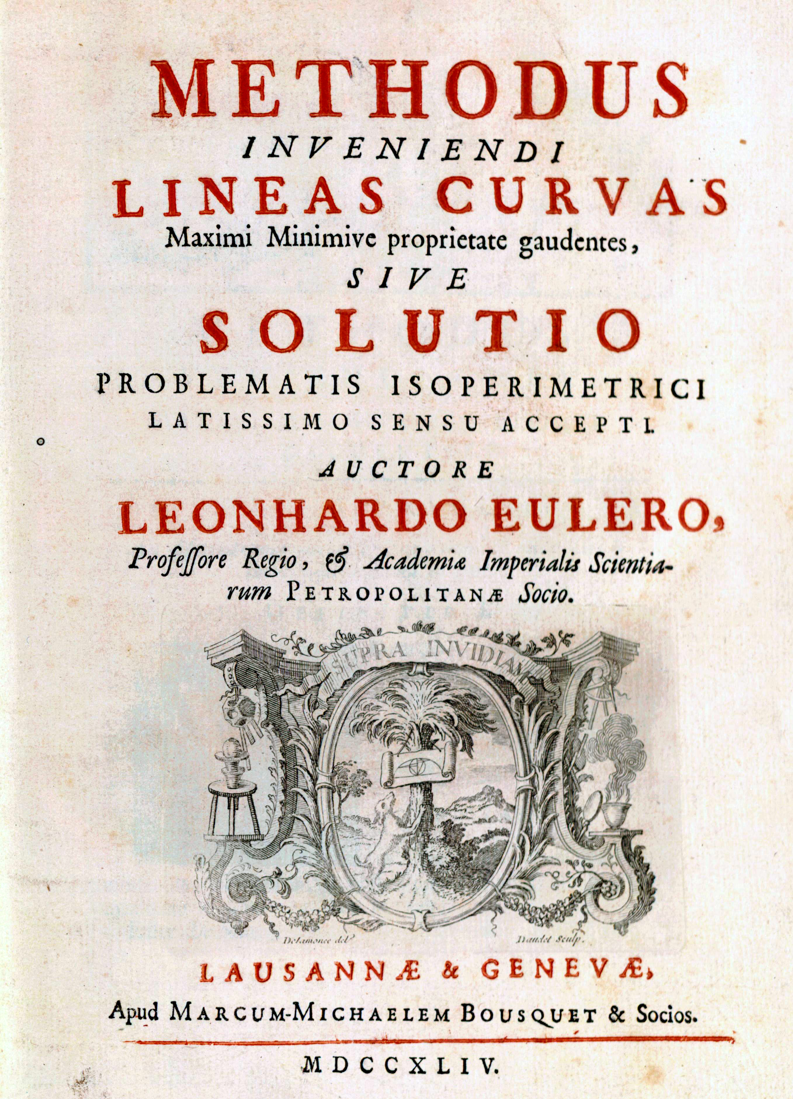 First Page of Methodus inveniendi (Leonhardo Euler, 1744).